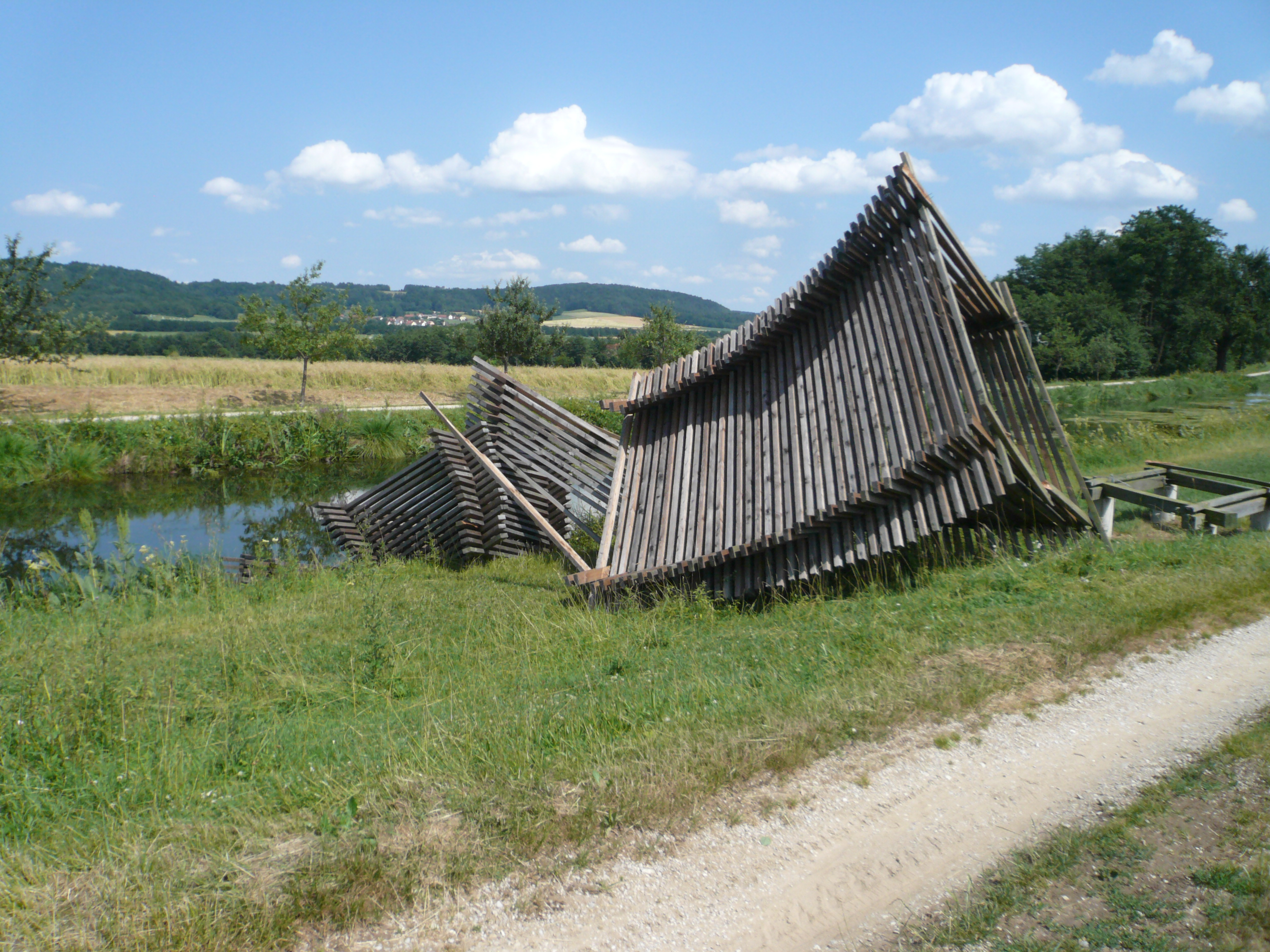 Sculpture "Stapelung" after being destroyed by Storm Norina in Berg bei Neumarkt i.d.OPf., Germany, 12. July 2010